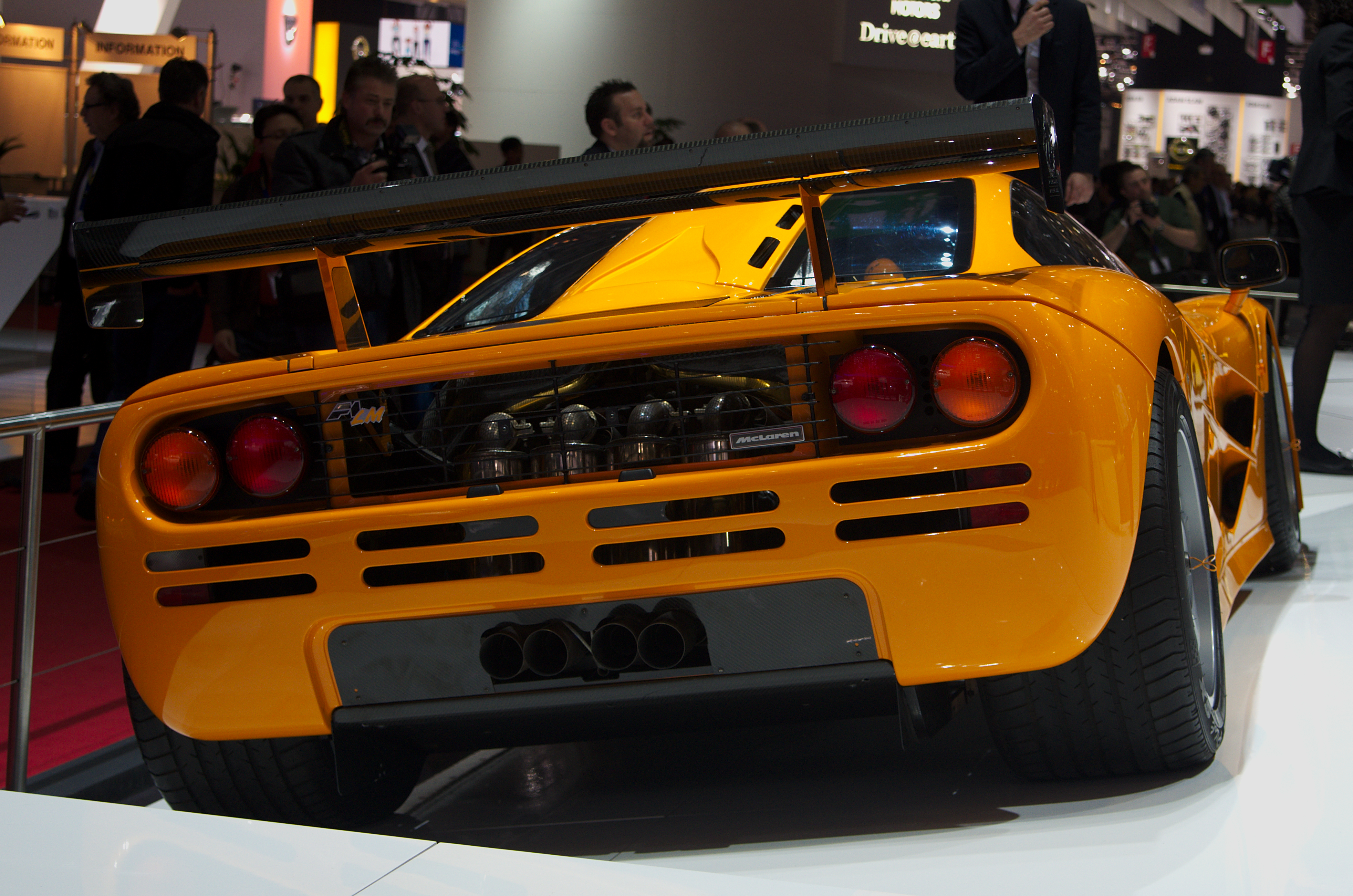 Geneva MotorShow 2013 - McLaren F1LM rear